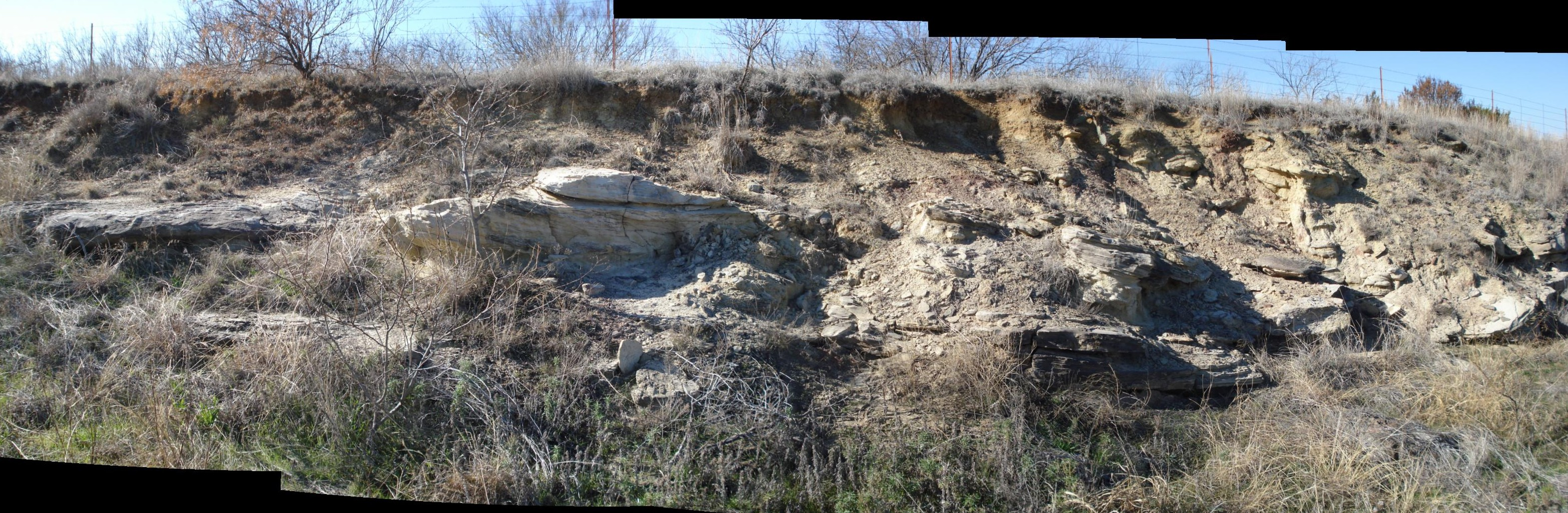 Sandstone channel in mudstone within the Petrolia Formation as exposed along Wiley Road, west of Wichita Falls, TX